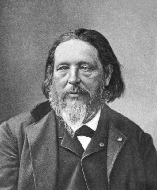 Jules Breton (May 1, 1827 – July 5, 1906)